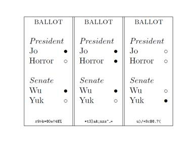 Voting ballot